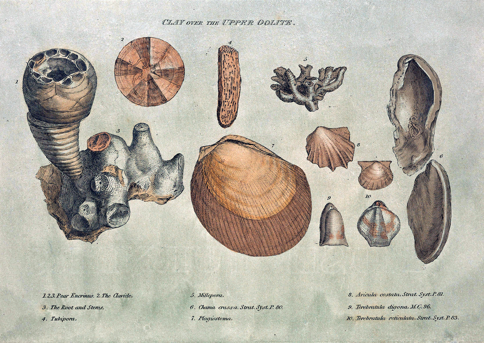 Historical plate showing fossils that characterize the “Clay over the Upper Oolite” of England (more widely known as the Bradford clay, a clayey layer on top of a hardground which forms the basal surface of the Forest Marble Formation in the area of Bradford-on-Avon and is Bathonian, i.e. Middle Jurassic, in age[1]). This plate comes from the fundamental biostratigraphical work of the pioneer of modern geology William Smith. Note that the names of the fossil taxa may have changed since, mainly in a way, that the historical genus concepts subsequently changed over to family or even higher-ranked taxa. For some of the figured specimens, e.g. for the “Pear Encrinus” in figs. 1–3, there even were no formally described genera or species at the time. This taxon was first mentioned under a linnean binomen only in 1820 by Schlotheim (Encrinites parkinsonii)[2] and was 1821 referred to as Apiocrinites rotundatus by Miller[3]. Because Apiocrinites rotundatus is thus a junior synonym of Encrinites parkinsonii with Encrinites being an in fact meaningless genus from the earliest days of fossil crinoid systematics, the taxon today is referred to as Apiocrinites parkinsoni.[1]